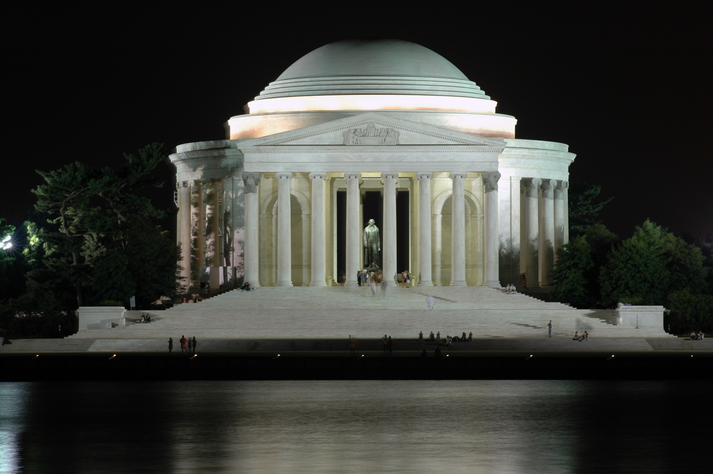 The Thomas Jefferson Memorial reflects its image on the Potomac River in Washington, D.C. The memorial honors the Nation’s 3rd President Thomas Jefferson who is considered the author of the Declaration of Independence.